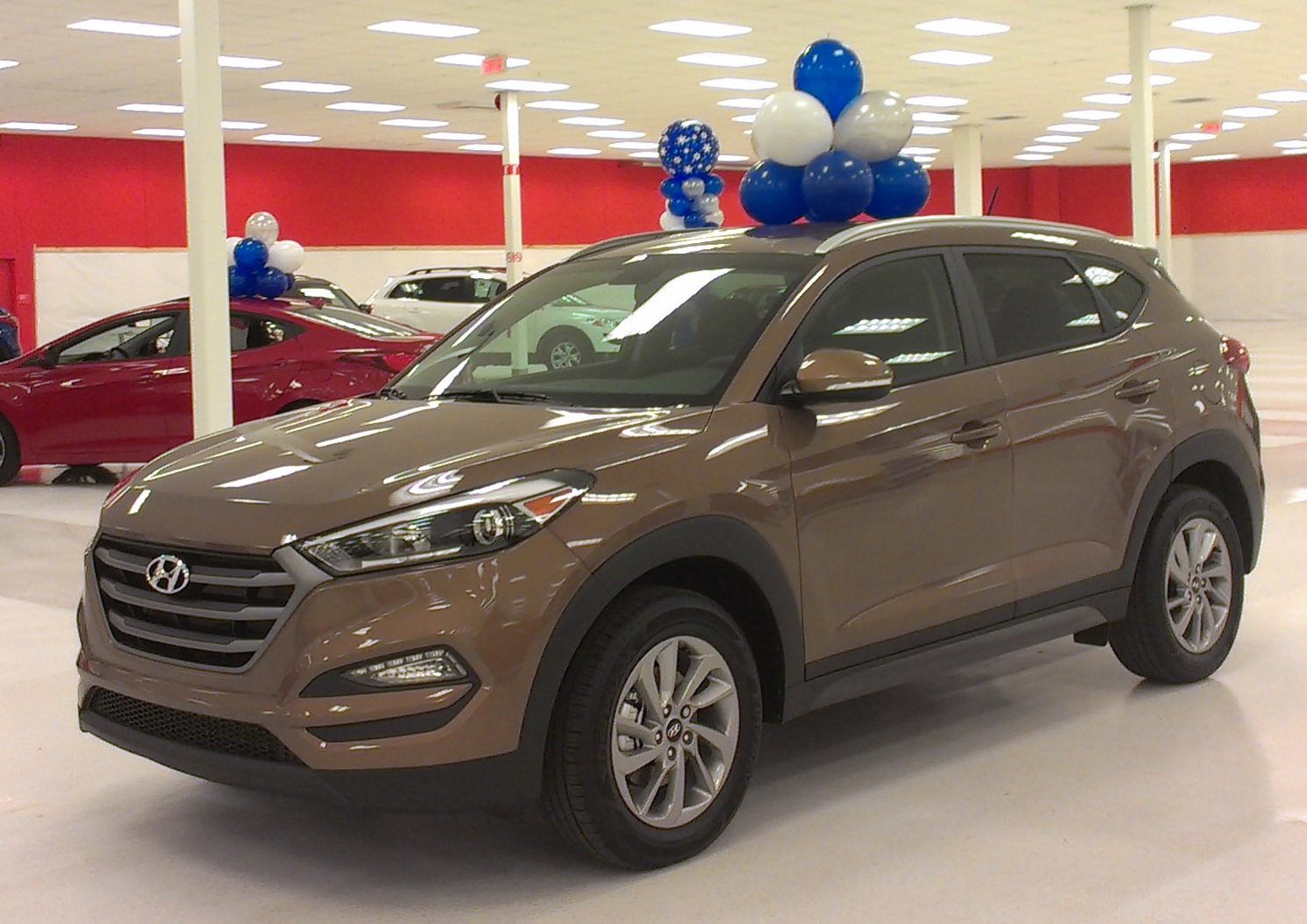 2016 Hyundai Tucson photographed in Montreal, Quebec, Canada at the Carrefour Angrignon auto show that was located where Target was.